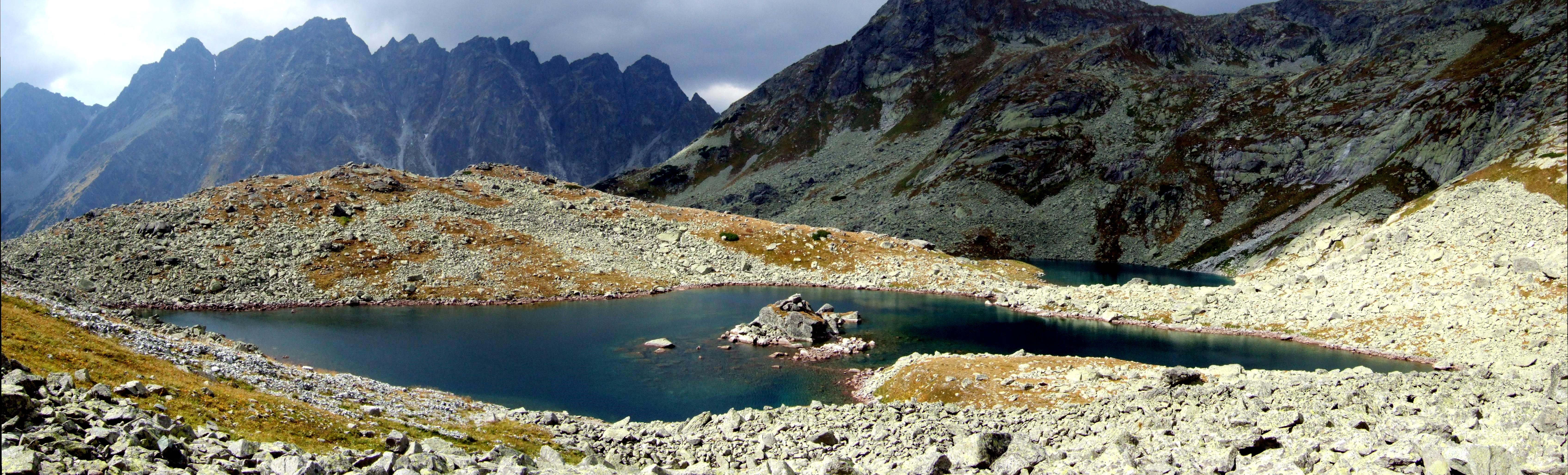 A small lake on the side of Mt Rysy in the Tatra Mountains in Slovakia. The lake at the foreground is Veľké Žabie pleso mengusovské (Wielki Żabi Staw Mięguszowiecki), at the background is Malé Žabie pleso mengusovské (Mały Żabi Staw Mięguszowiecki). They are located in Žabia dolina mengusovská (Żabia Dolina Mięguszowiecka). Longtitude: 20°05.5 Latitude: 49°11.5 Taken by me. (description mostly by Naive cynic).